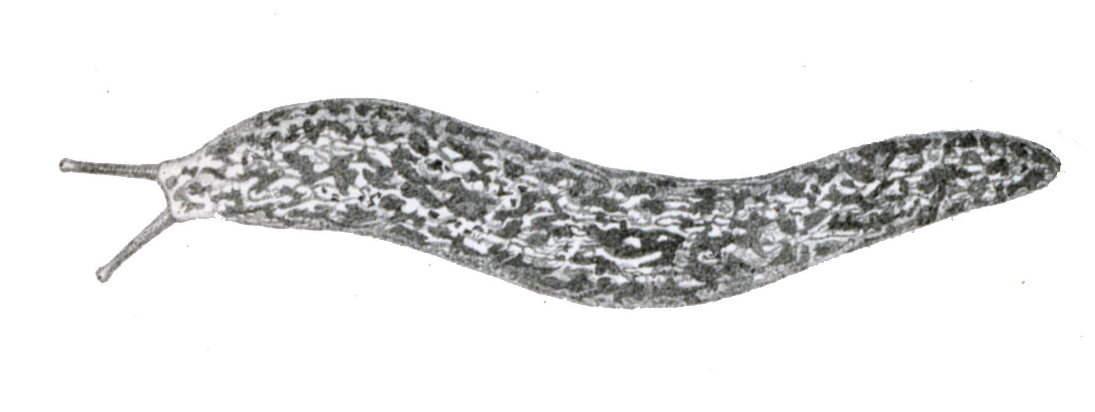 Drawing of the the slug, Philomycus carolinianus - dorsal view, in motion, ex Binney 1878.